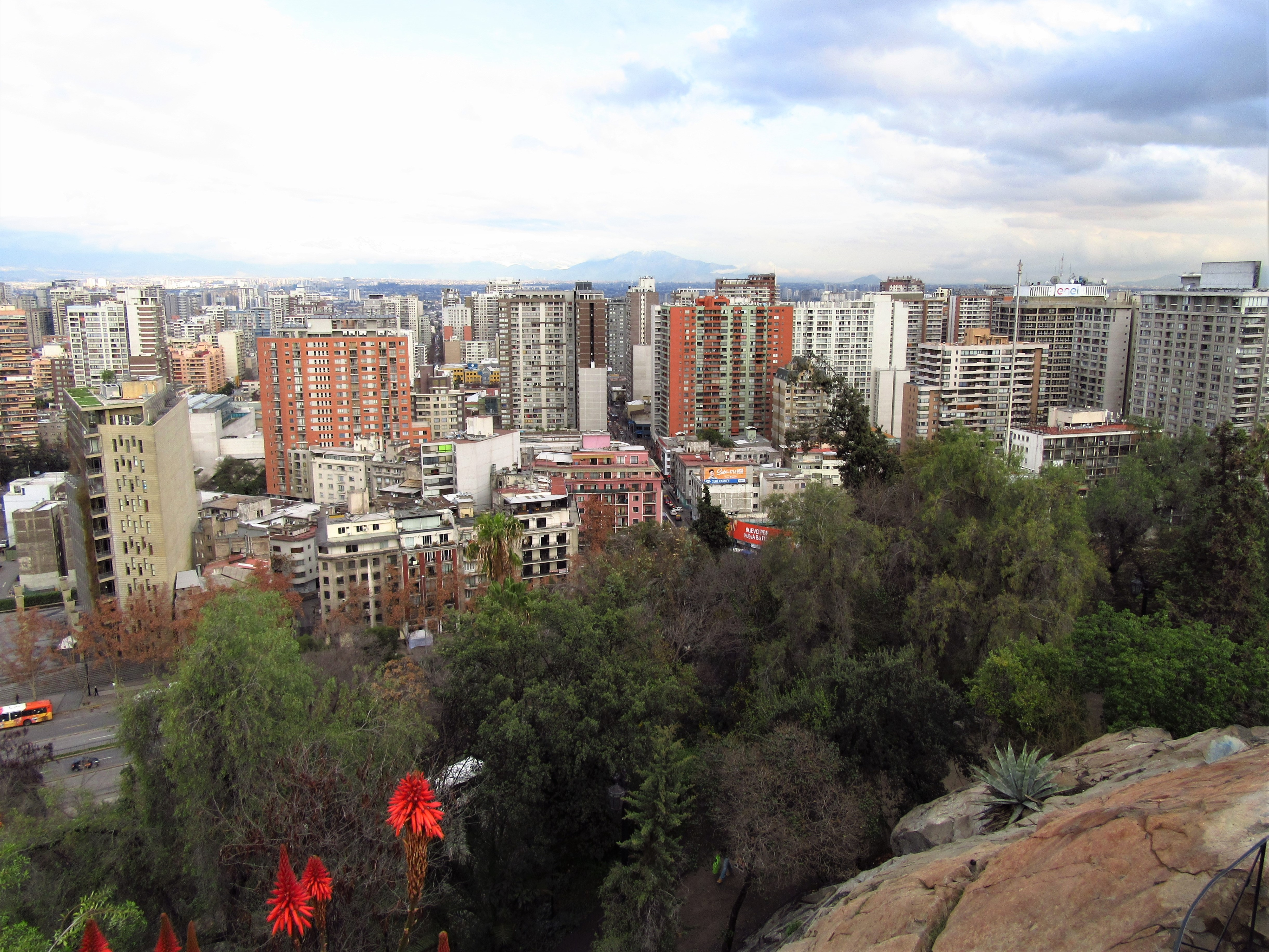 2017 in Santiago de Chile